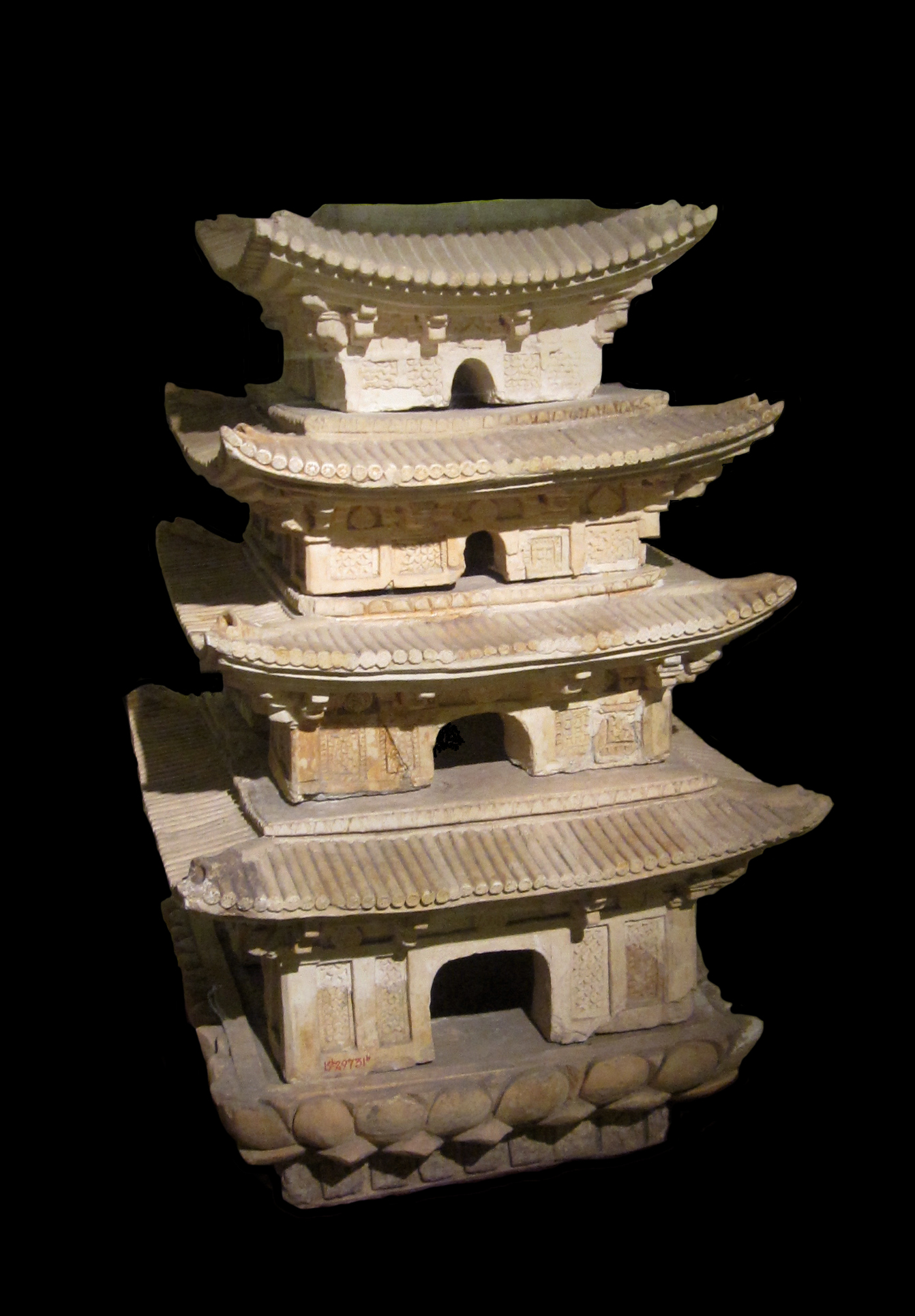 Pagoda with lotus, bodhi leaf, dancer decoration. Ceramic, Lý dynasty, 11th-13th century, Hanoi. Object for worship. National Museum of Vietnamese History, Hanoi.